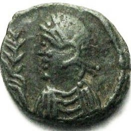 Carthage. Municipal Coinage. Ca 480-533. AE 11mm 4 Nummi. Class II. Struck circa 523-533 AD. Diademed and draped bust left, holding palm / Bar over N over IIII in three lines. MIB I, 20 (Gelimer); BMC Vandals 12 (Huneric); MEC 1, 55.